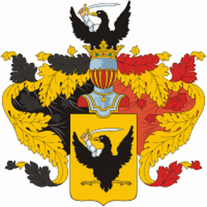 Coat of Arms of Cheglokov family